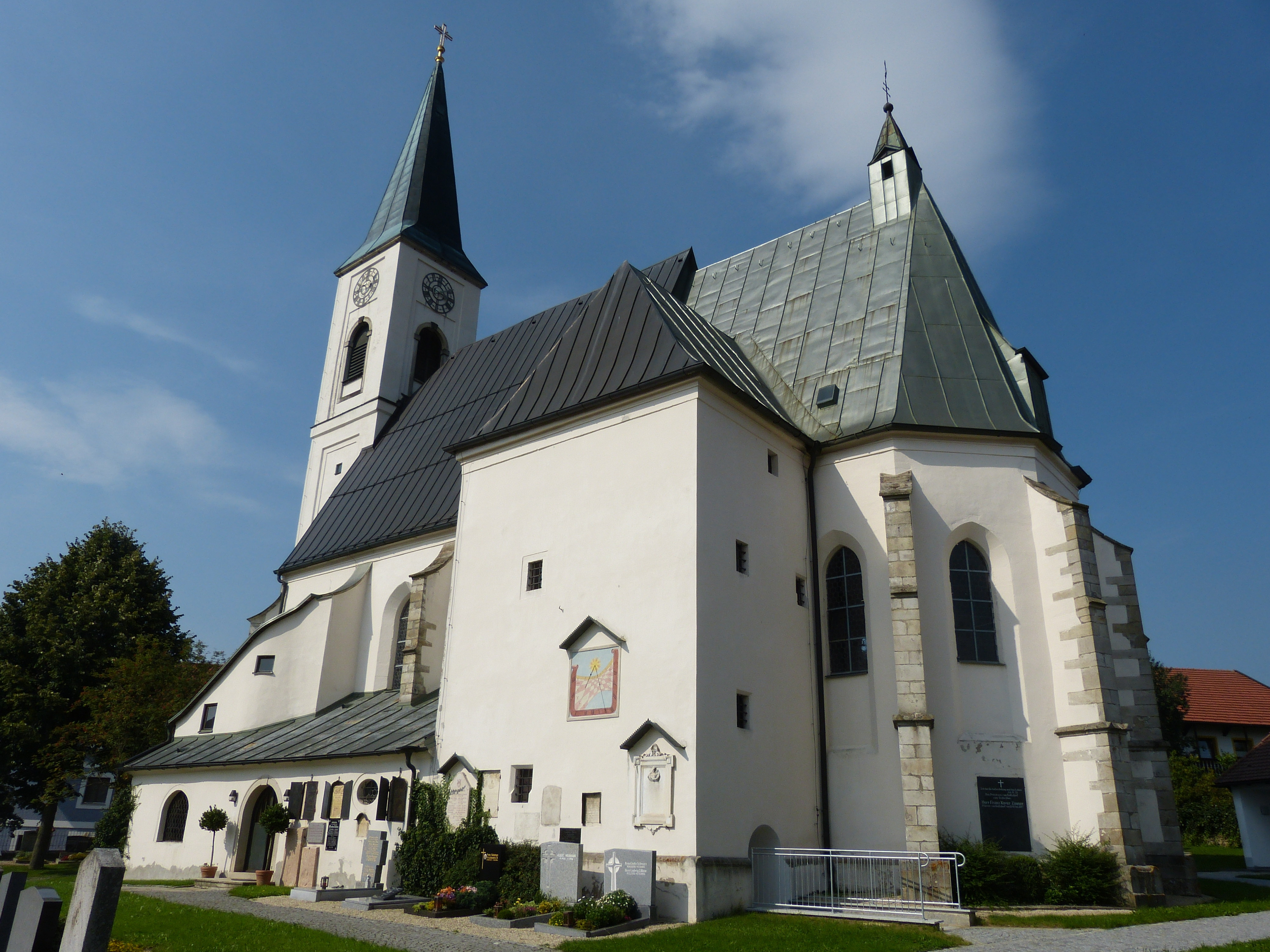 Untergriesbach ( Lower Bavaria ). Saint James the Greater parish church ( 15th century ) in Gottsdorf.